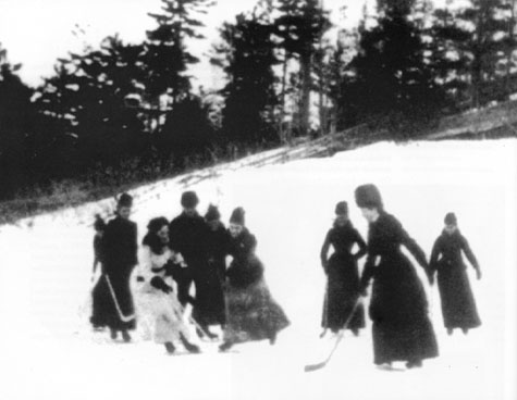 Image of women playing hockey, Isobel Stanley, daughter of Lord Stanley, is seen wearing white